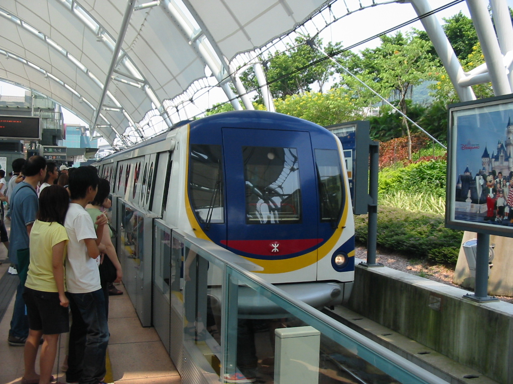 香港地鐵迪士尼線列車，由Wrightbus拍攝。 An MTR train running Disneyland Resort line. Photo taken by Wrightbus.